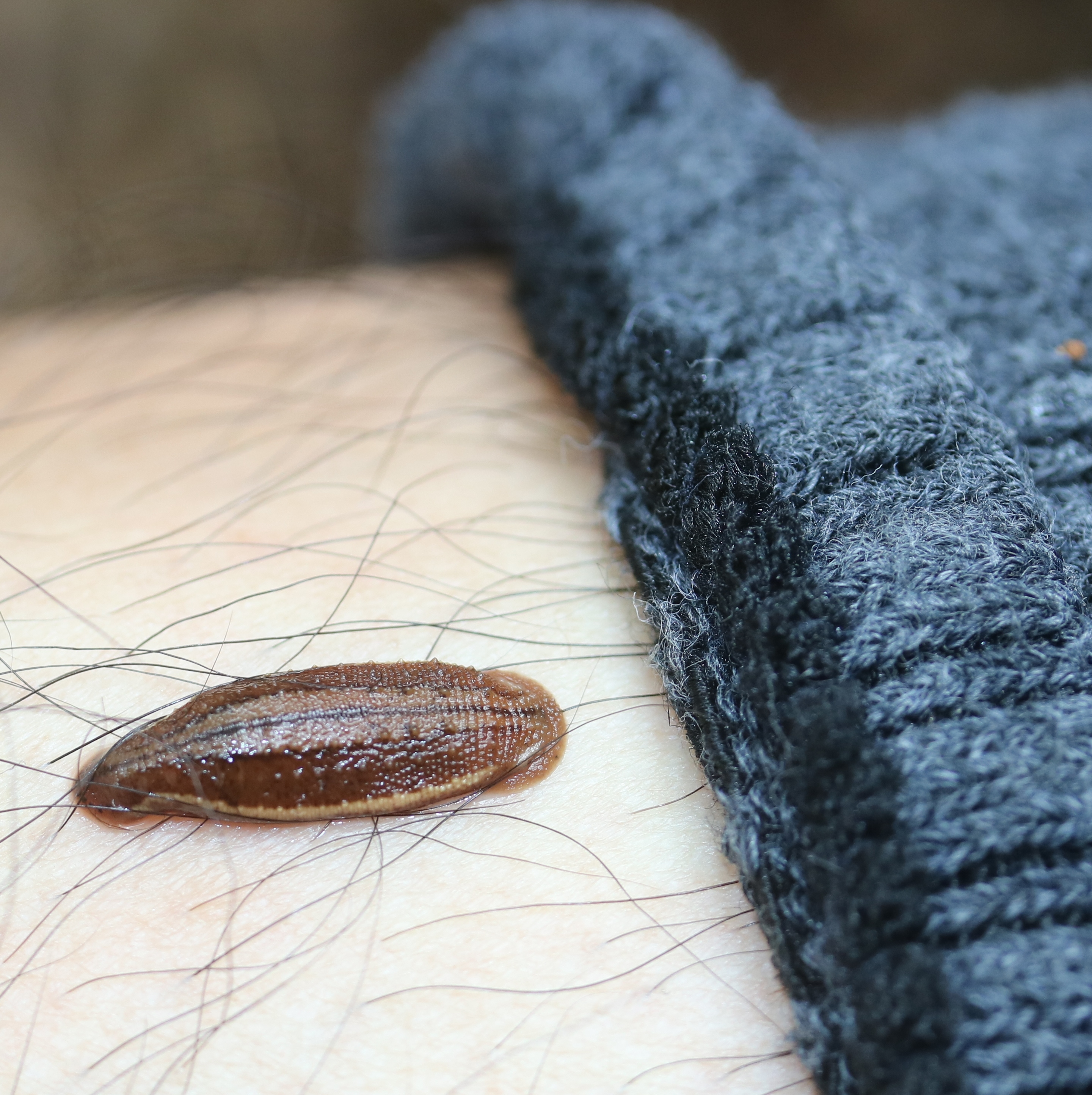 Haemadipsa zeylanica japonica sucking blood of leg under socks in Japan.